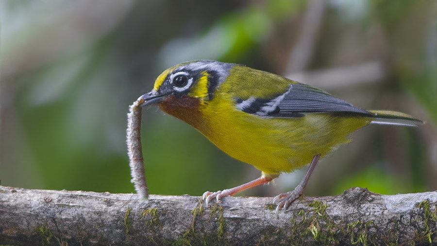 The species Black-eared Shrike Babbler had been photographed at Khangchendzonga national Park in West Sikkim, India during GoingWild's birding trip on 30.10.2015.